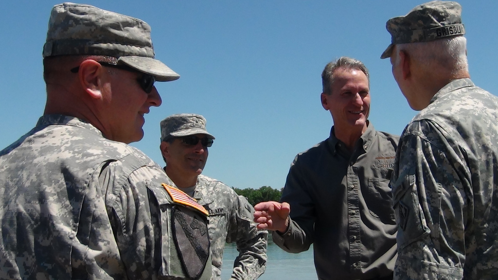 Col. Robert Ruch, Brig. Gen. John McMahon and South Dakota Gov. Dennis Daugaard talk with Maj. Gen. William Grisoli about flood preparations in the Pierre and Fort Pierre area.